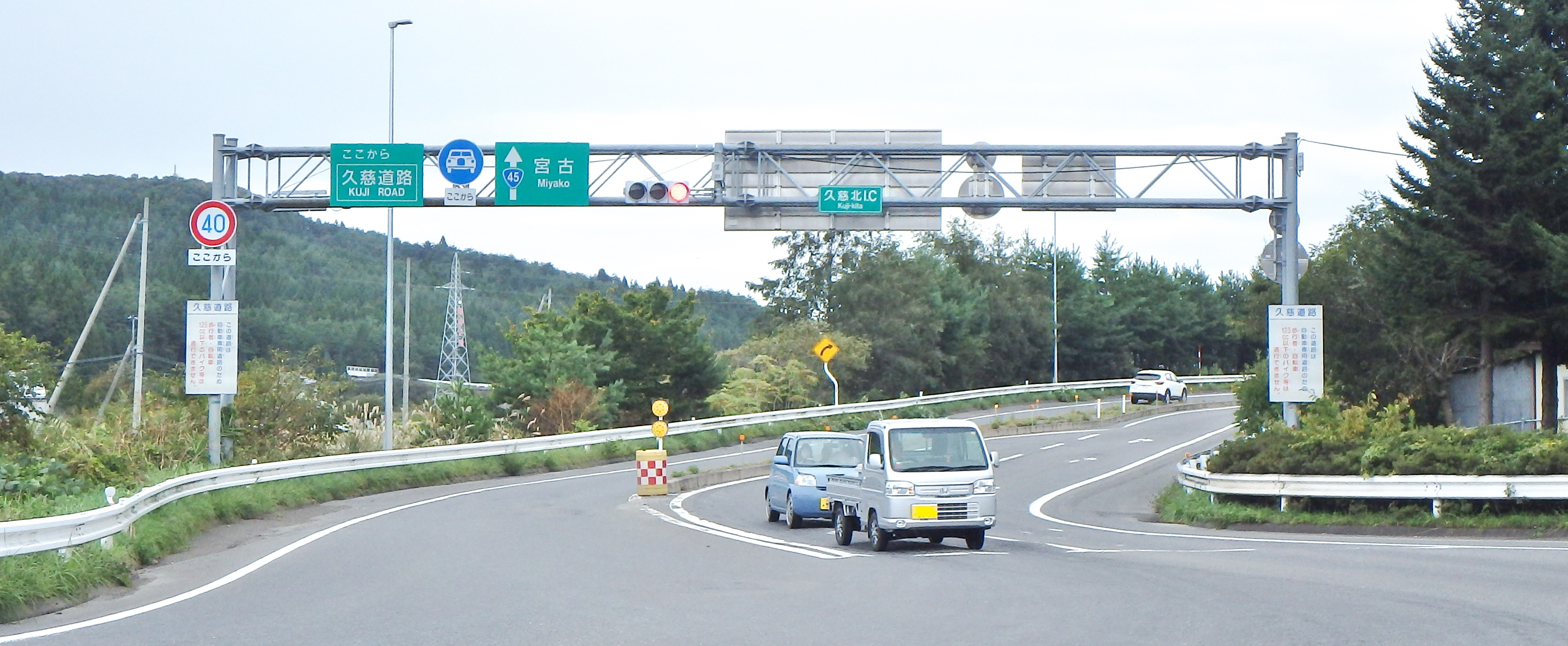 Kuji-kita Inter Change ,Iwate prefecture,Japan